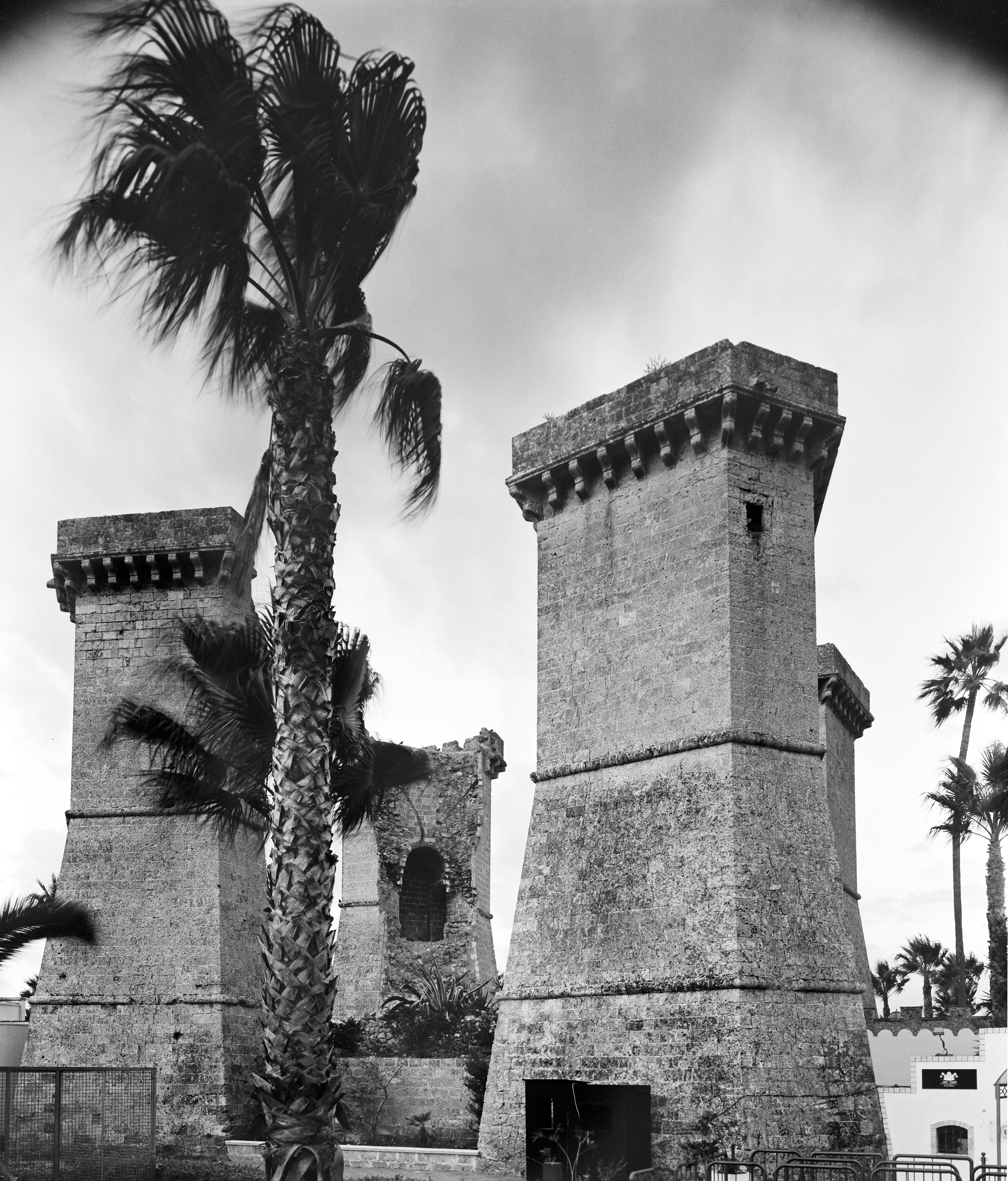 The four coastal towers at Santa Maria al Bagno, Salento, Puglia. Properly known as Torre del Fiume Galatena. Shot on 4x5 Ilford HP5.